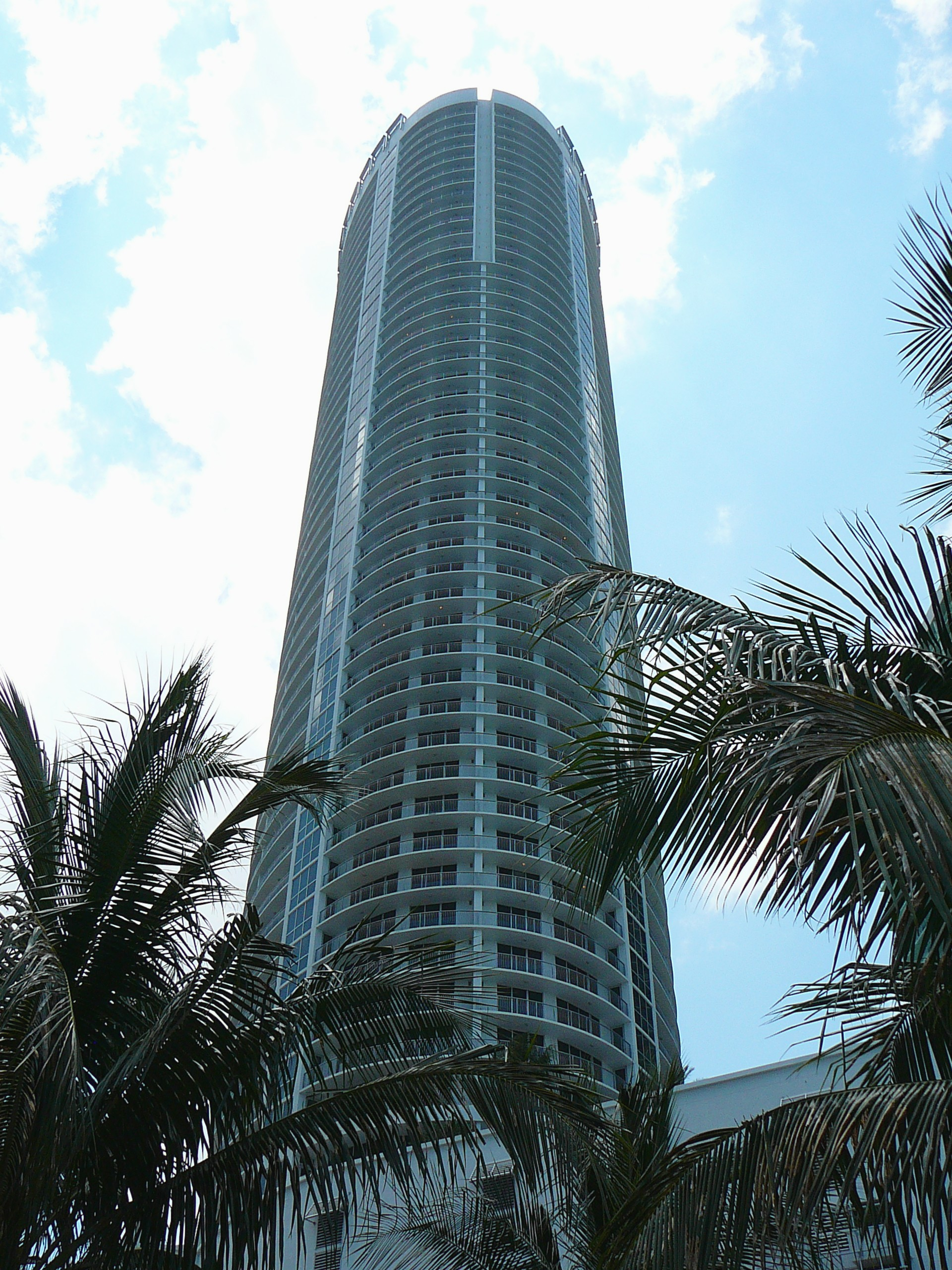 Digital photo taken by Marc Averette. Side (east) view of the Opera Tower in downtown Miami, FL. 5/10/2008